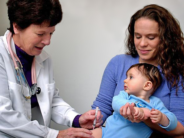 Immunization